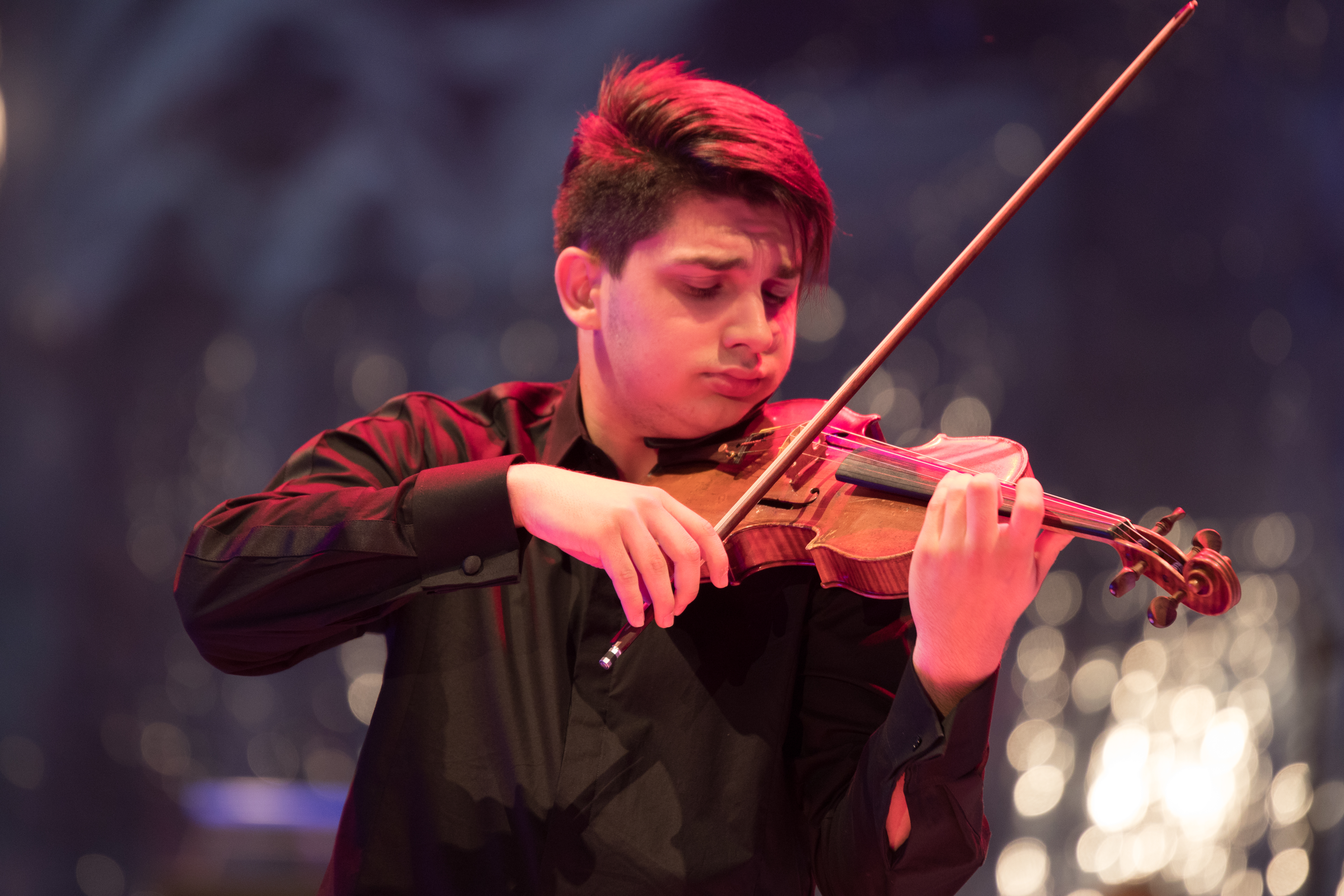 Eurovision Young Musicians 2016 in Cologne, Rehearsal on September 2nd 2016: Jakab Roland Attila